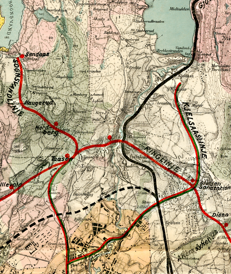 Proposed line map of Sognsvann Line made in 1918